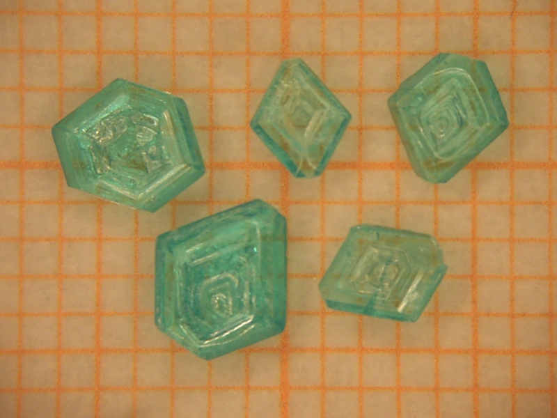 Synthetic mitscherlichite crystals (K,NH4)2CuCl4.2H2O grown from aqueous solution. Photo taken under microscope. The millimeter paper shows the size scale.